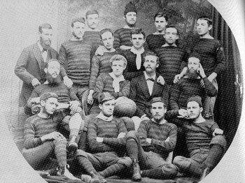 Brisbane F.C. (Queensland, Australia) squad. The team switched from rugby union to Australian rules that year.